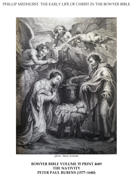 The holy family adore the infant Christ with a cow and donkey beyond and three putti holding a banderolle above.